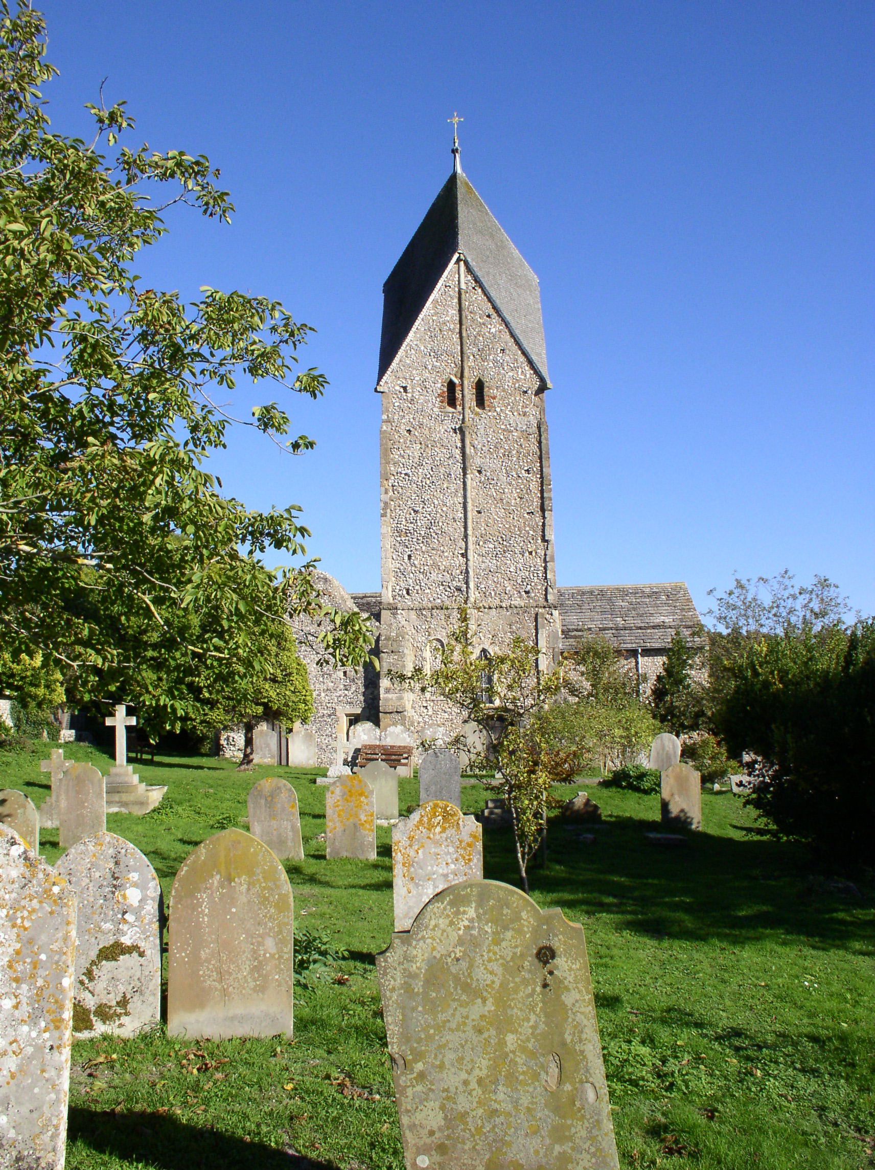 Sompting Church - exterior from the West